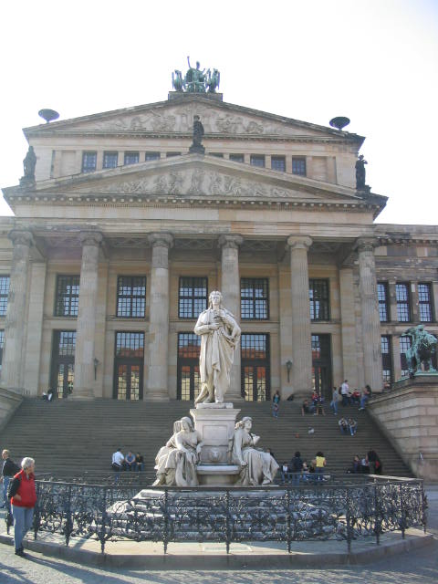 Description: View of Konzerthaus and Schiller statue on Gendarmenmarkt in Berlin. Source: self-made. I release it into the public domain. Gryffindor 16:17, 6 February 2006 (UTC)